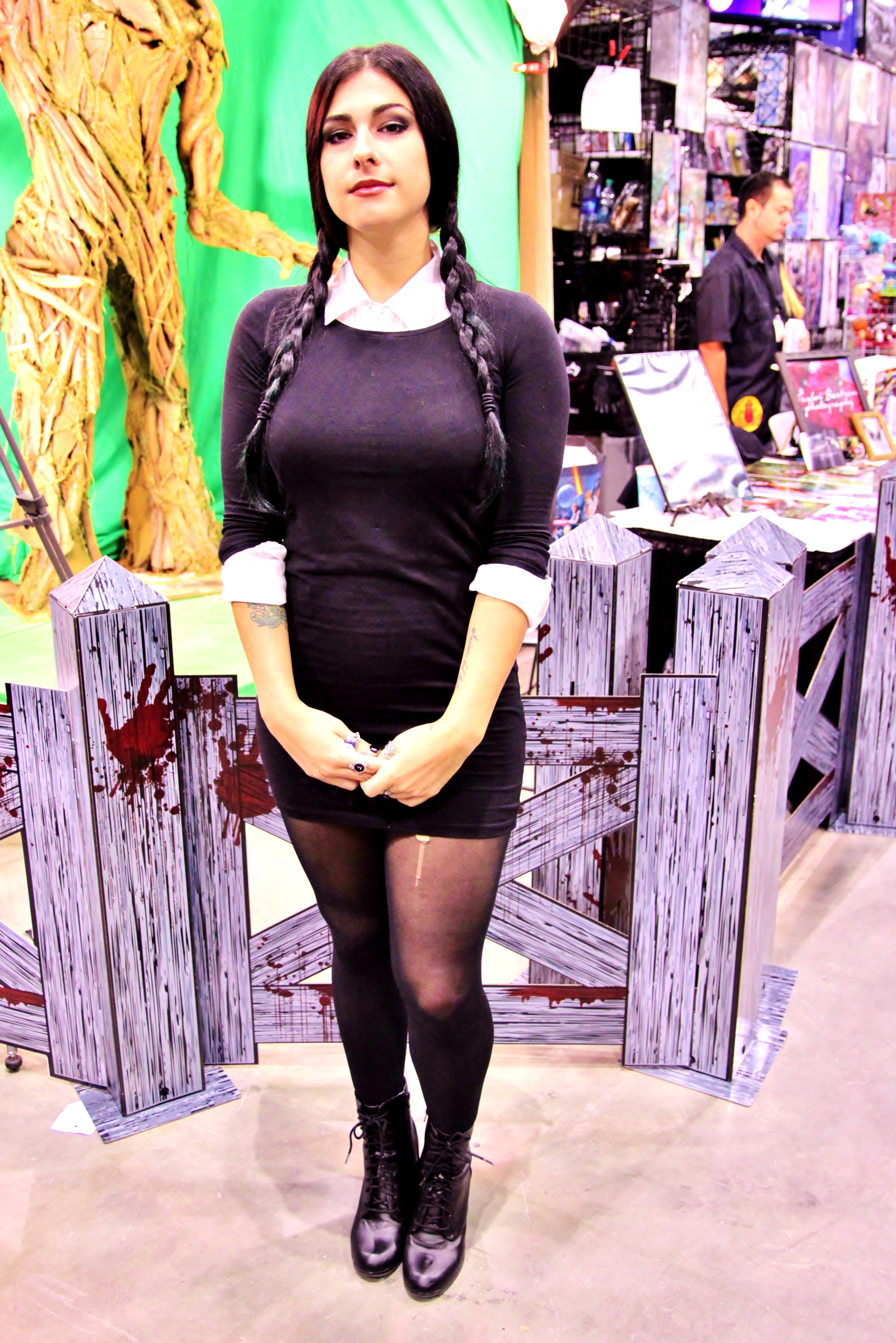 Taylor Bartram of Taylor Bartram Photography cosplaying as Wednesday Addams (of the Addams Family) at Stan Lee's Comikaze 2014.